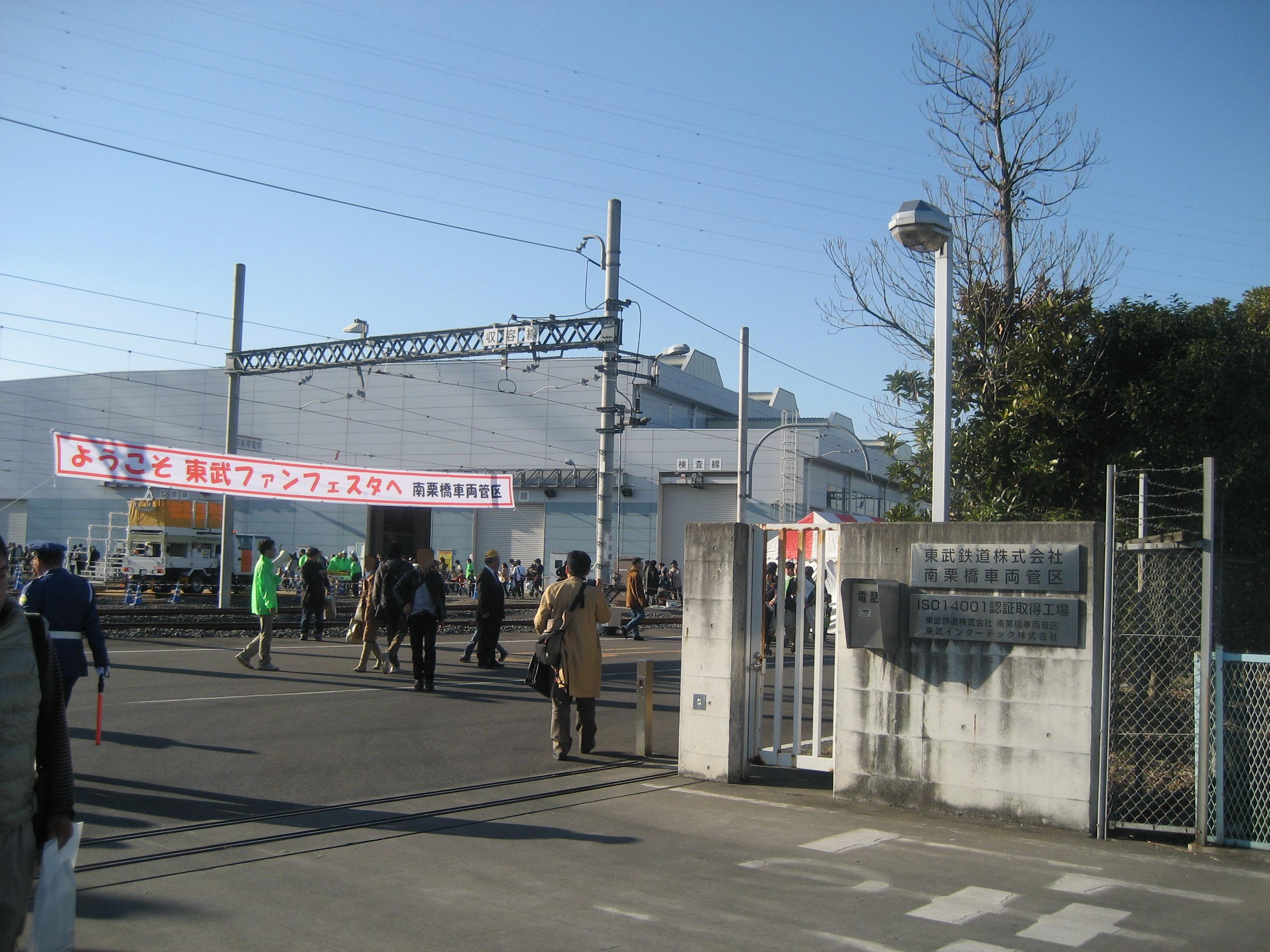 Tobu Railway Minami-Kurihashi Depot